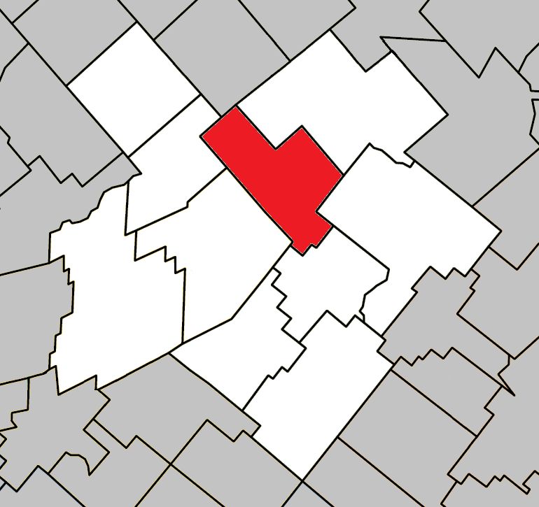 Location of Laurierville, Quebec within L'Érable Regional County Municipality.